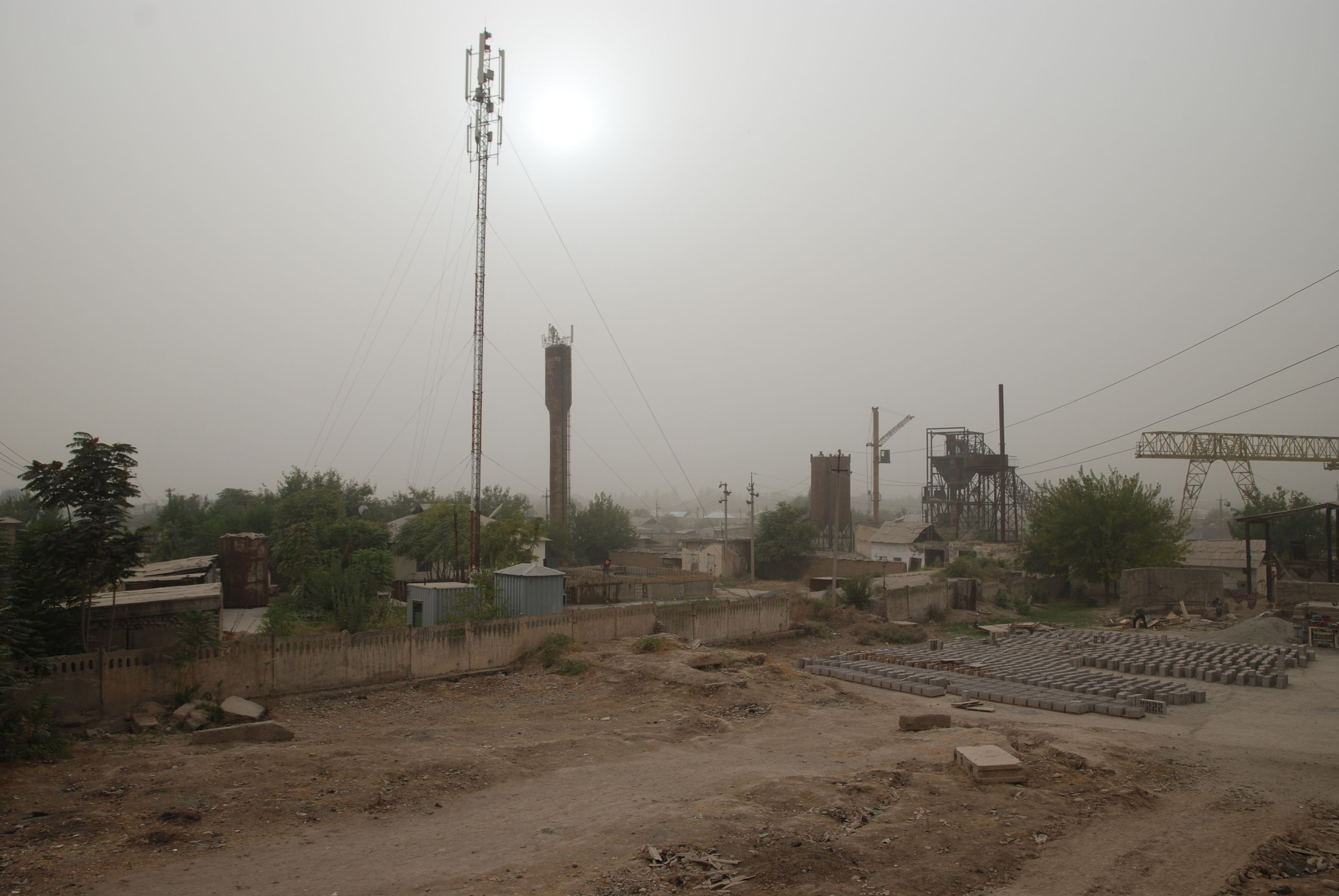 Kulob, dust in the wind on an afternoon